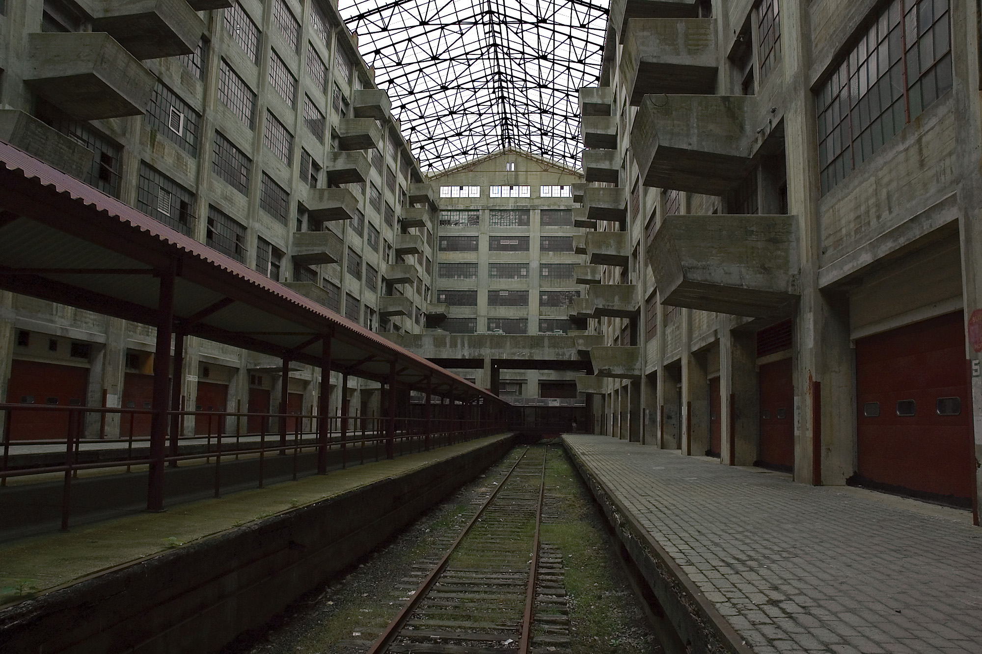 Inside Brooklyn Army Terminal, during Open House New York